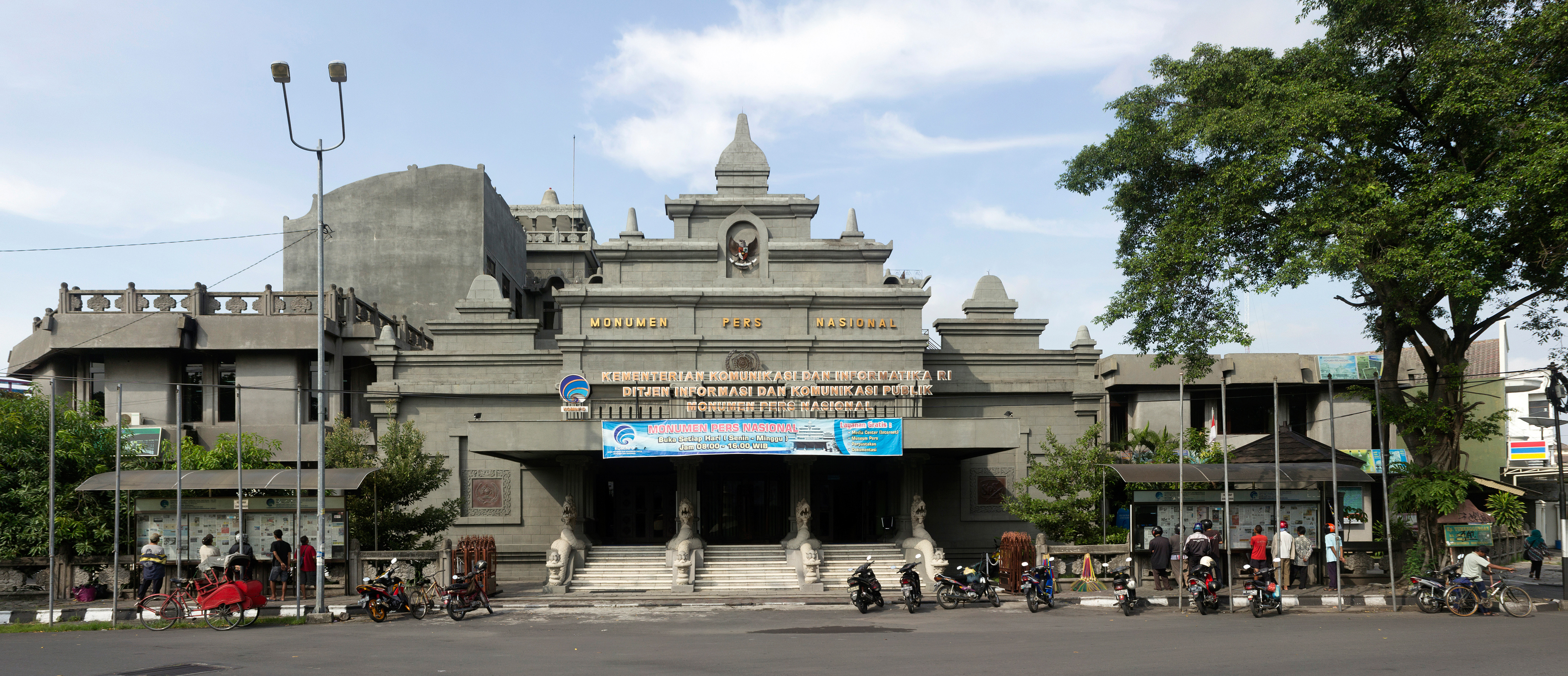 The National Press Monument in Surakarta